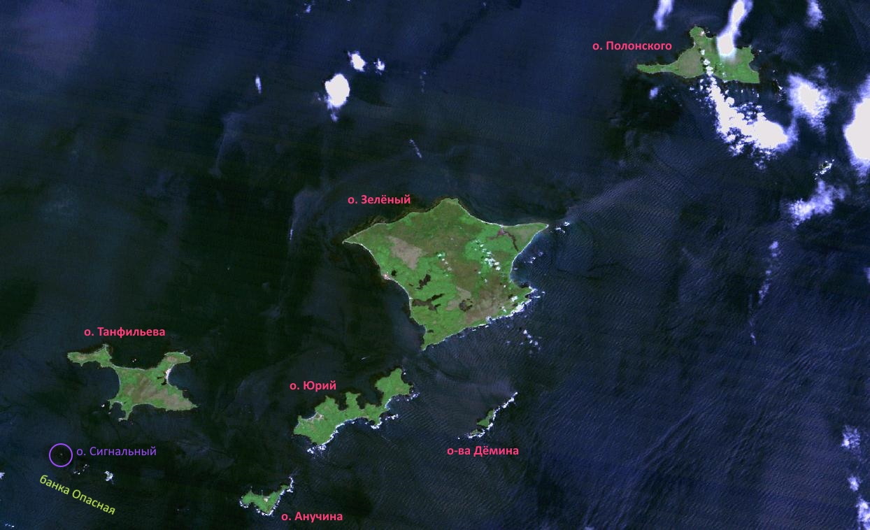 Signalny Island on the satellite image of the Habomai Islands